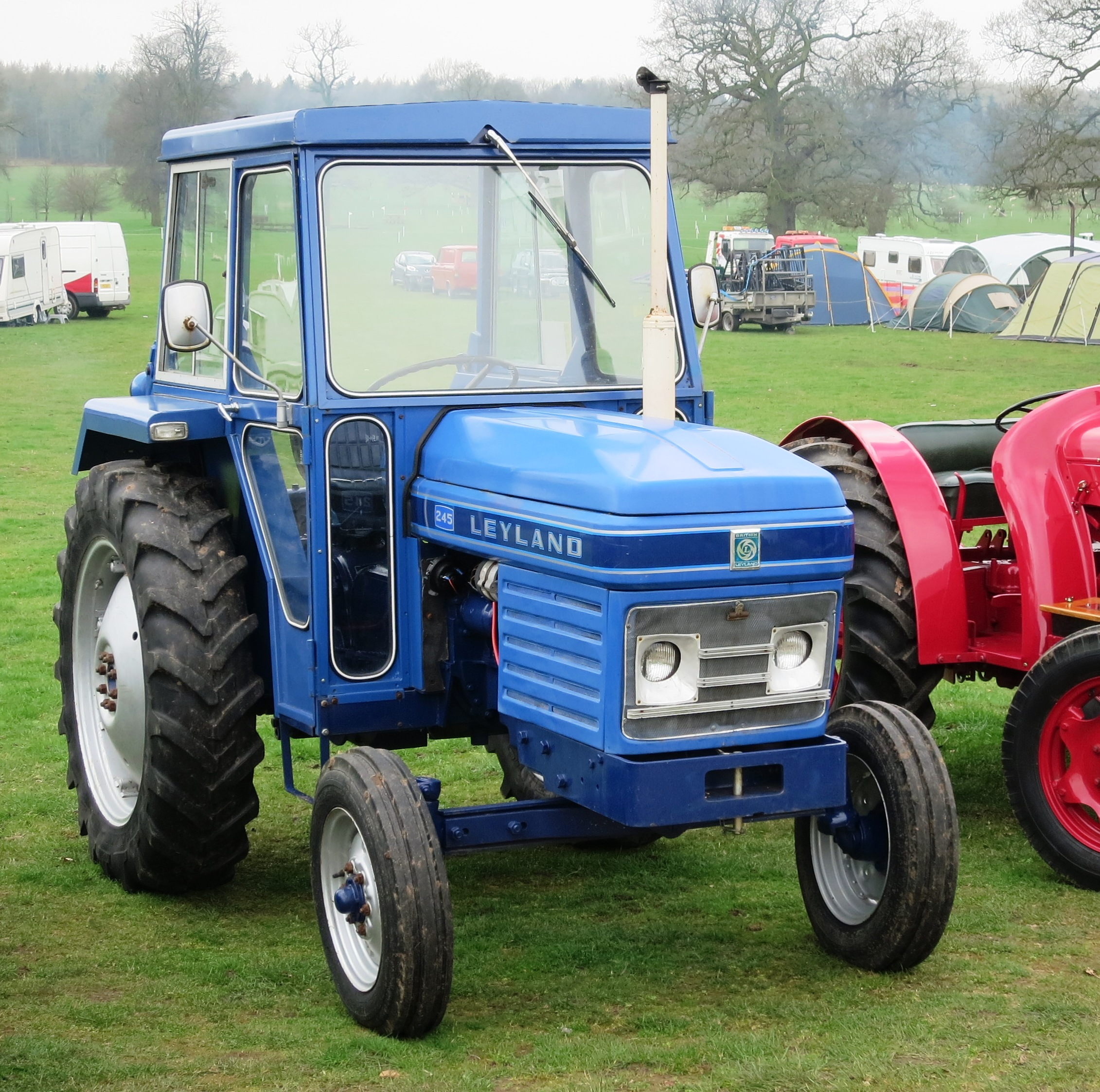 Leyland 245 at Weston